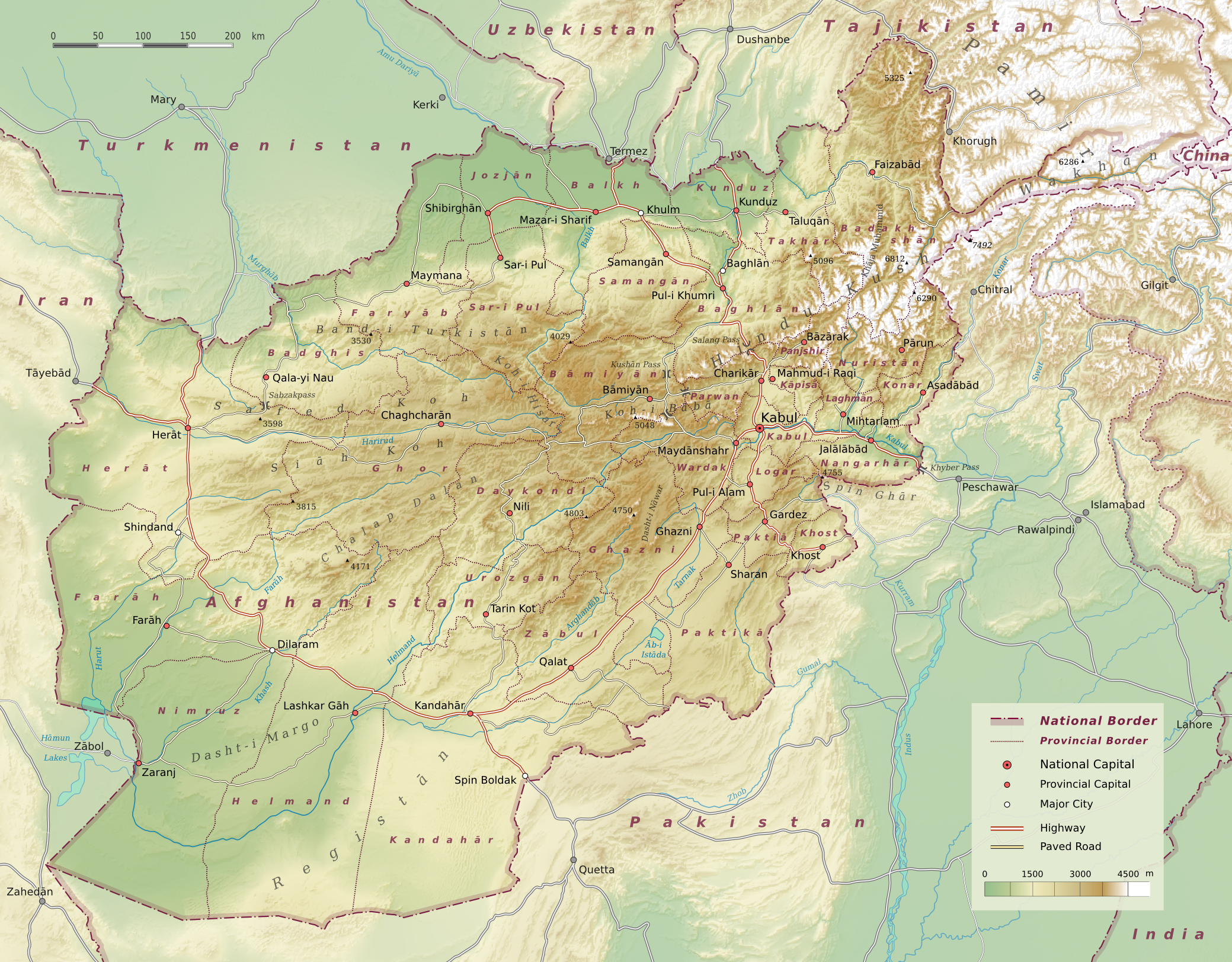 Physical map of Afghanistan, administrative division into 34 provinces following the administrative reform from 2005.(Note: Safed-Koh mountain range mark seems to be wrong placed. Probably it meens the Paropamisus mountains.)